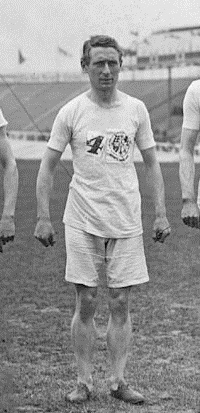 Members of the British athletic team at the 1908 London Olympics, Joe Deakin